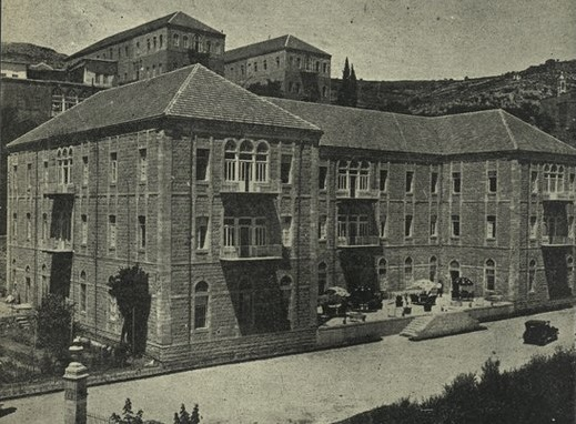 Grand Hotel of Zahle- 1947